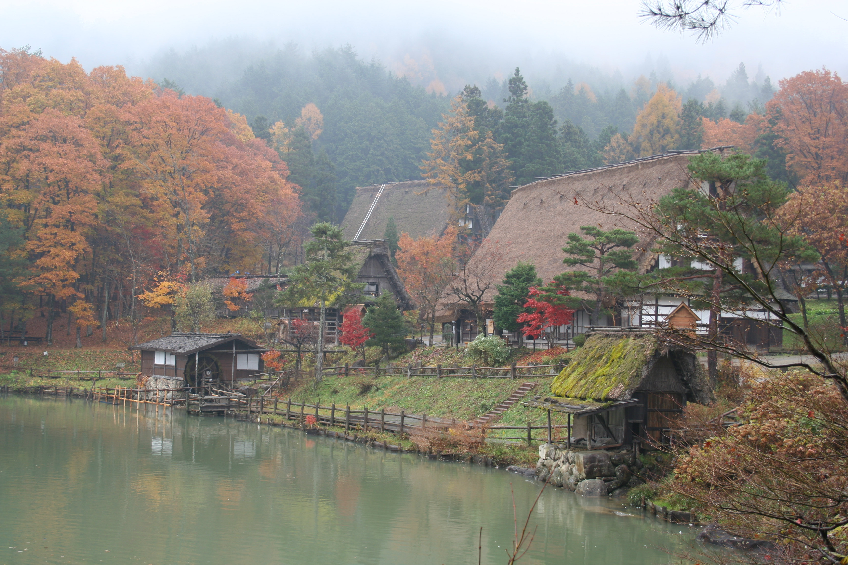 Hida Takayama folk village near Takayama, Gifu, Japan, in November 2006